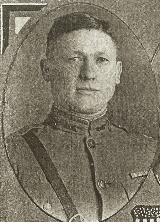 Wilbur M. White, member of United States House of Representatives from Ohio as soldier in World War I.